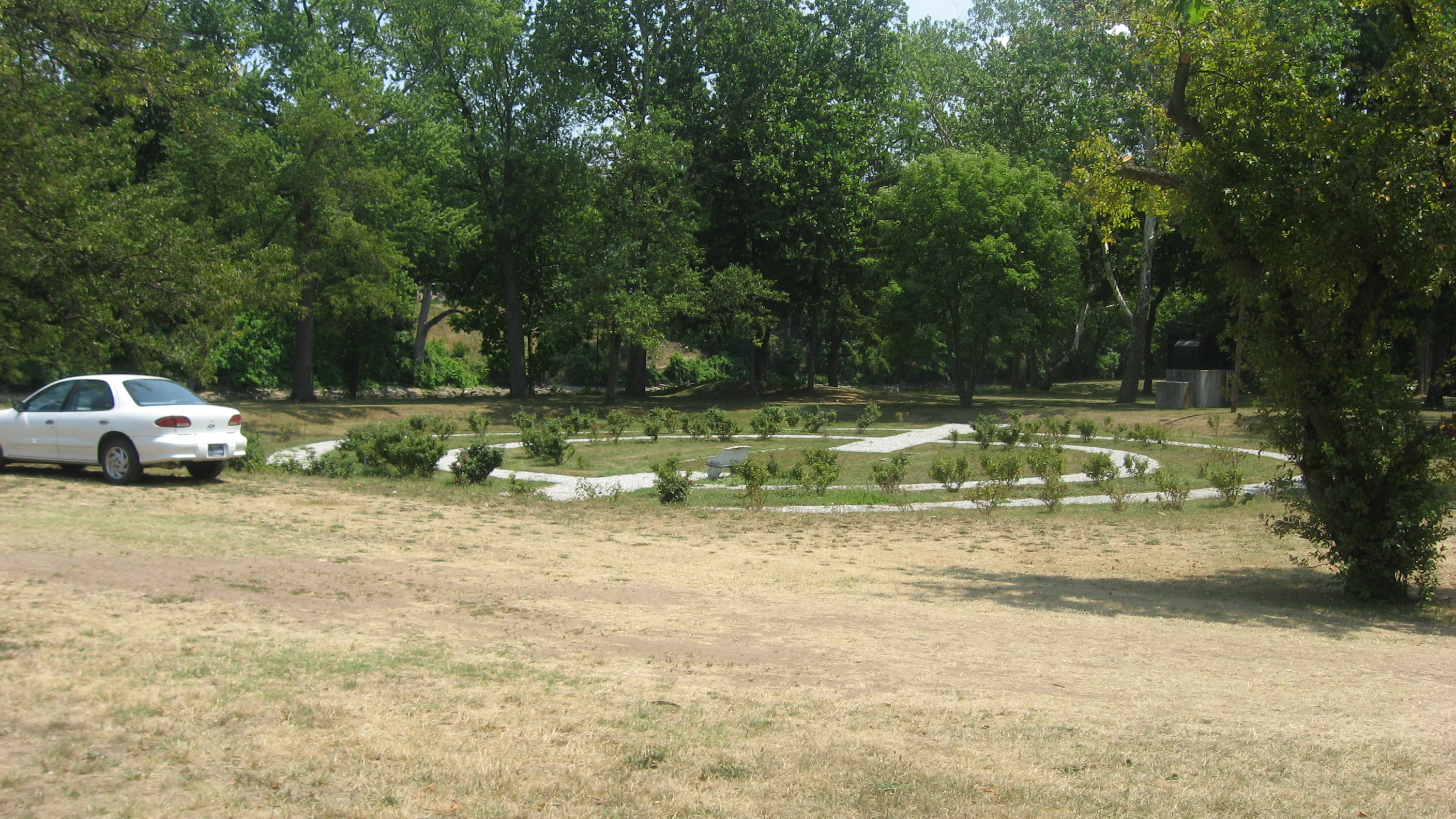 A sunken rose garden on the western side of Michigan Street at Leeper Park in South Bend, Indiana, United States. The park and several related buildings compose a historic district that is listed on the National Register of Historic Places.